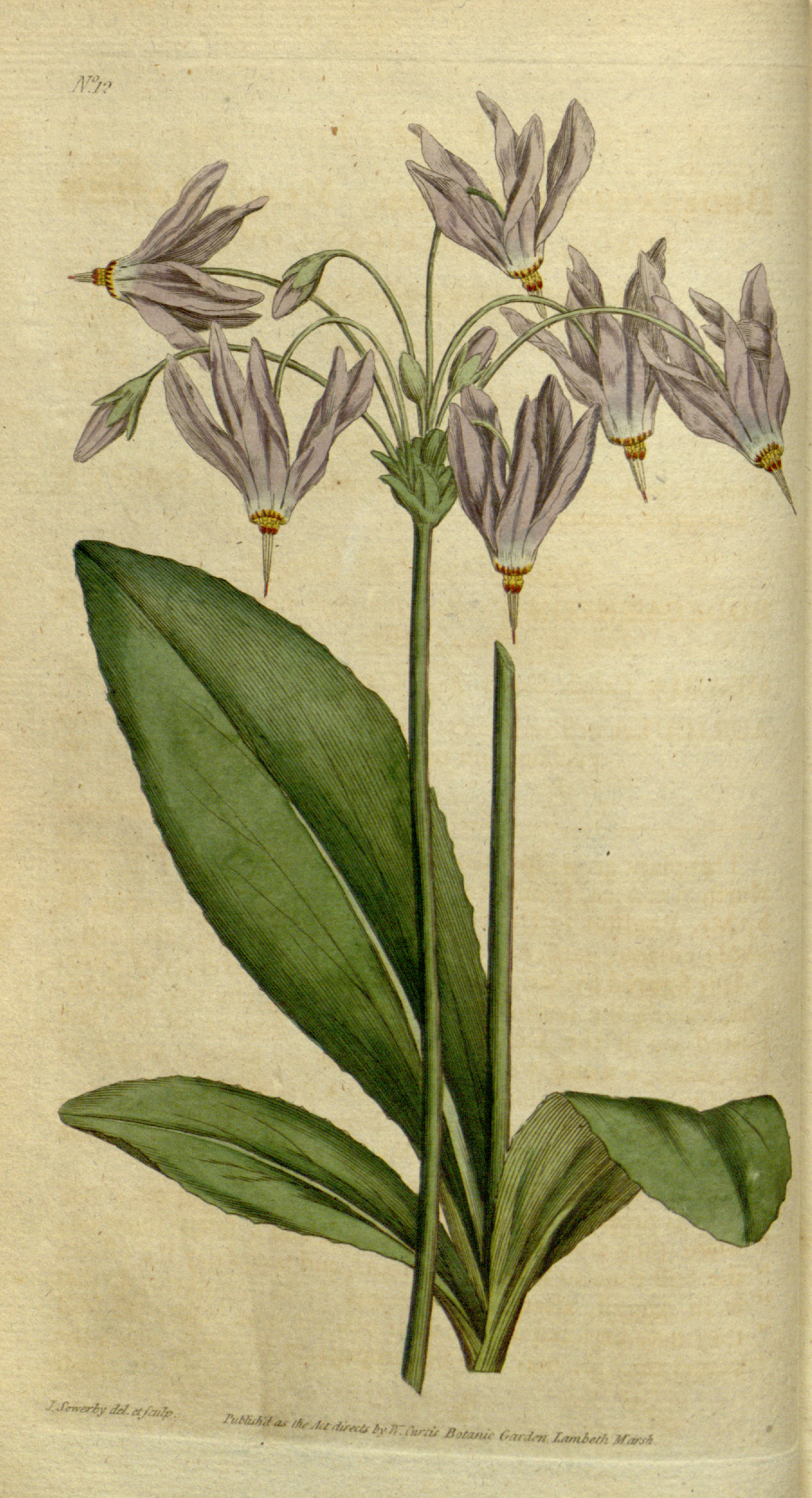 This is Plate 12 from The Botanical Magazine, Volume 1. Dodecatheon meadia (Primula meadia)